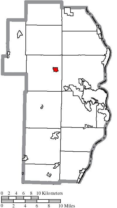 Map of the municipal and township boundaries of Jefferson County, Ohio, United States, as of the 2000 census, with the location of the village of Richmond highlighted. Township borders are shown only in unincorporated areas in order to differentiate incorporated and unincorporated areas more clearly.